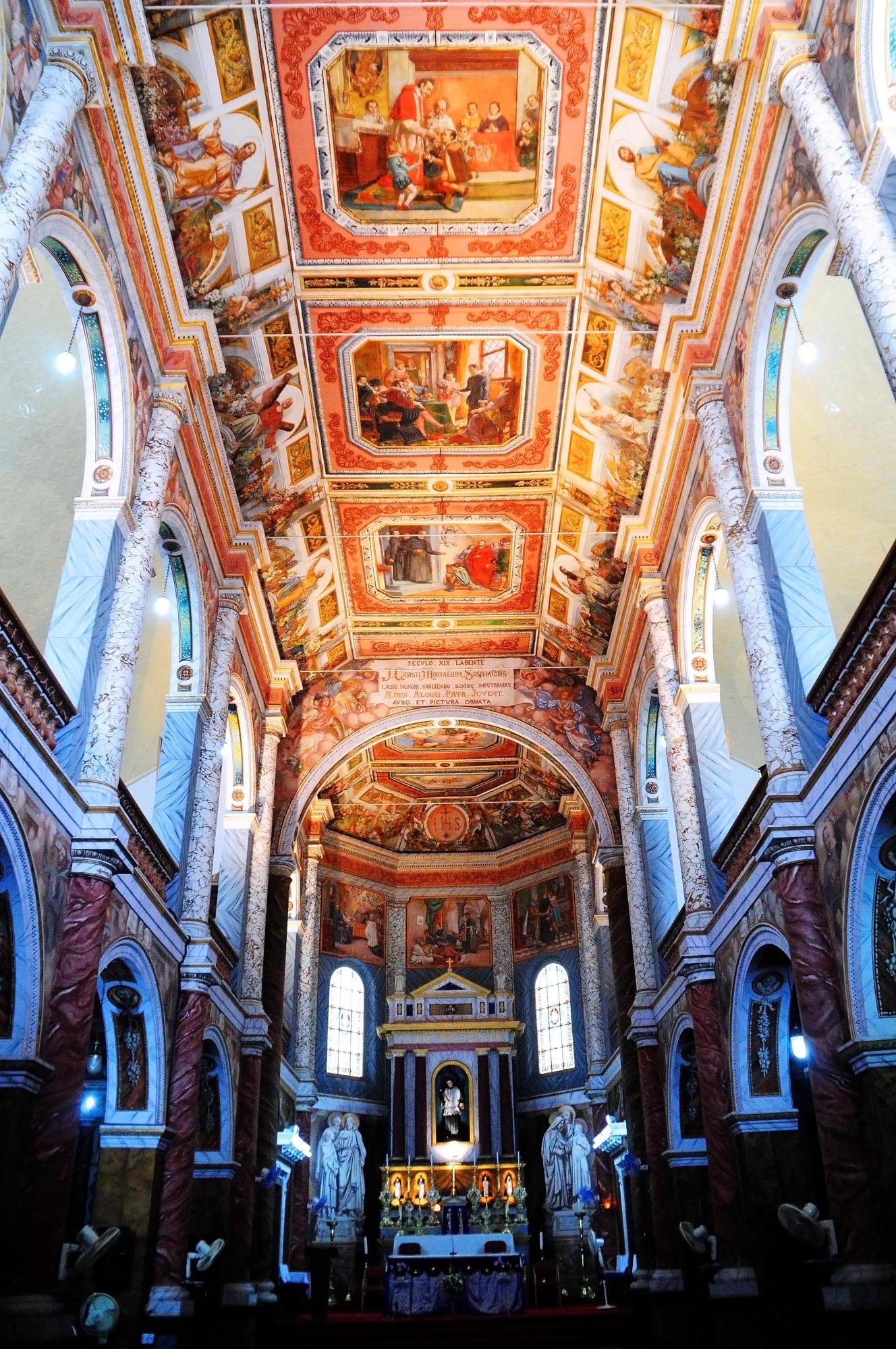 Entire Chapel View from Entrance